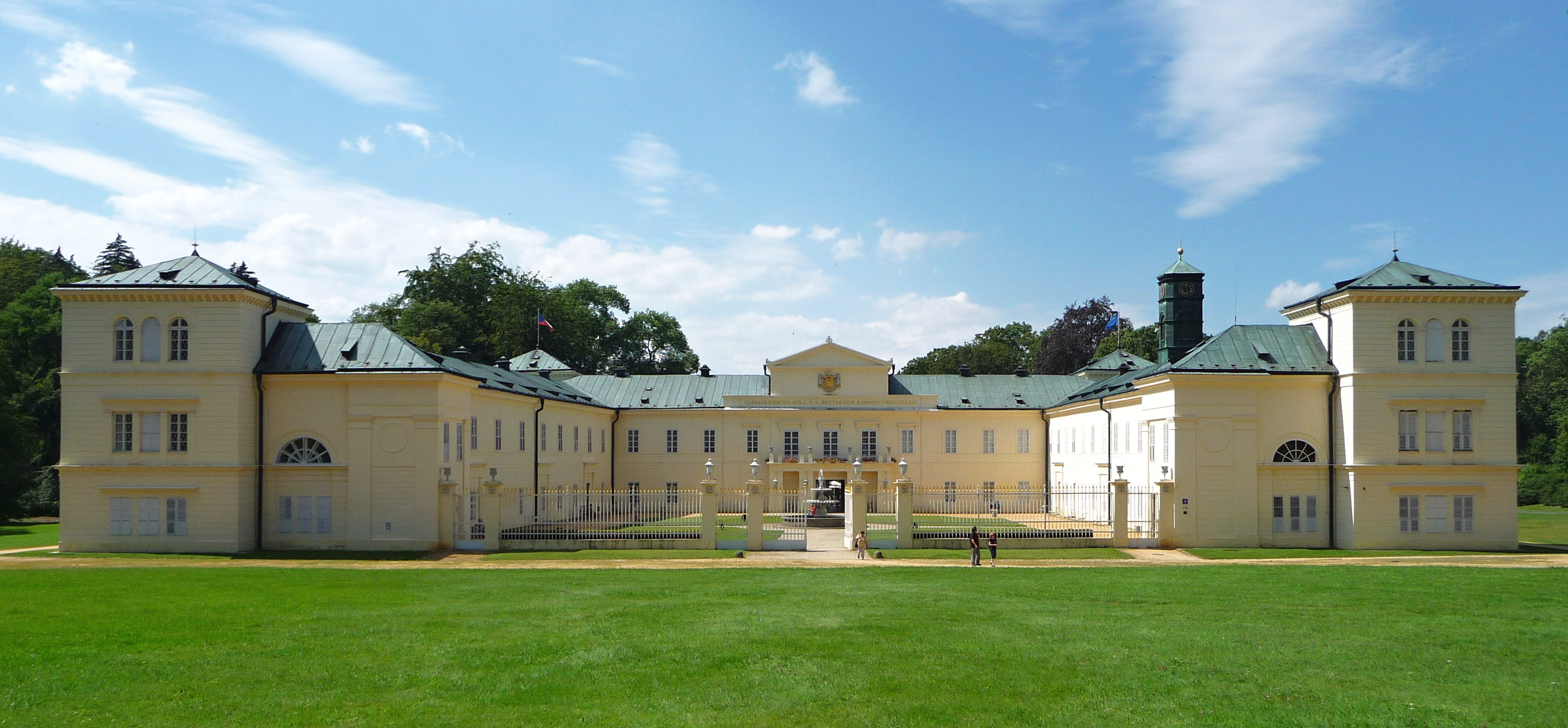 Kynžvart Chateau (Karlovy Vary Region, Czech Republic).